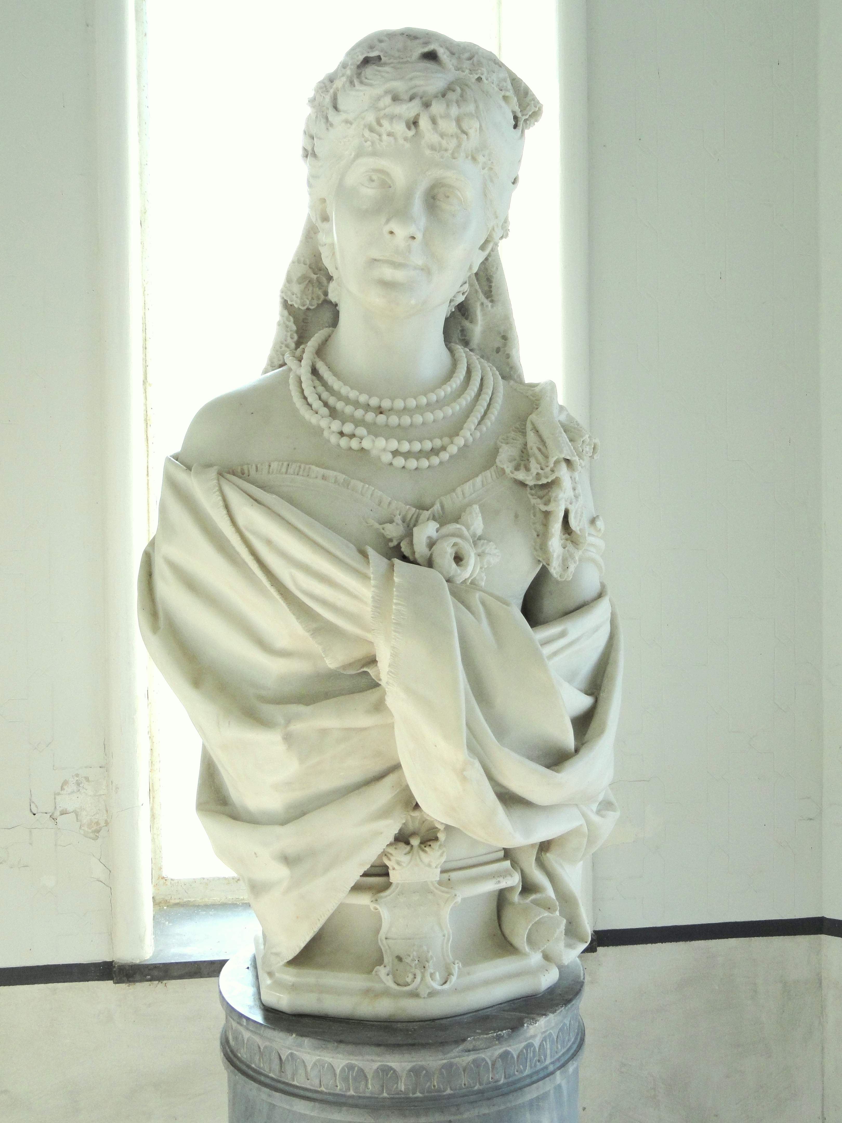 Statue of Duchessa Joséphine Melzi d'Eril Barbò (1830-1923), wife of Lodovico Melzi d'Eril, titular 3rd Duca di Lodi, 12th Conte di Magenta (1820-1886), on the grounds of the Villa Melzi (Bellagio), on Lake Como, Italy.